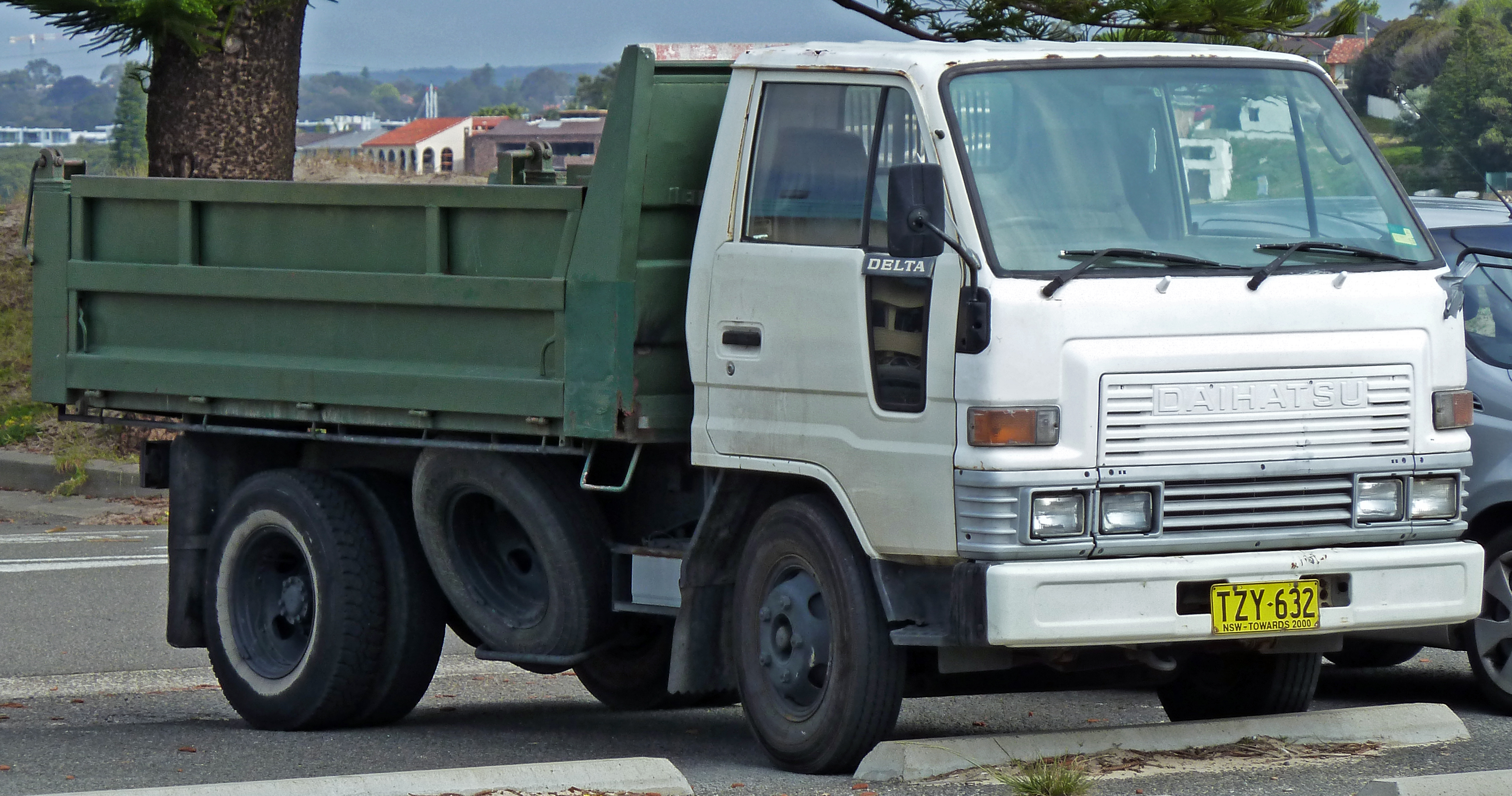 1985 Daihatsu Delta 2-door truck. Photographed in Sans Souci, New South Wales, Australia.